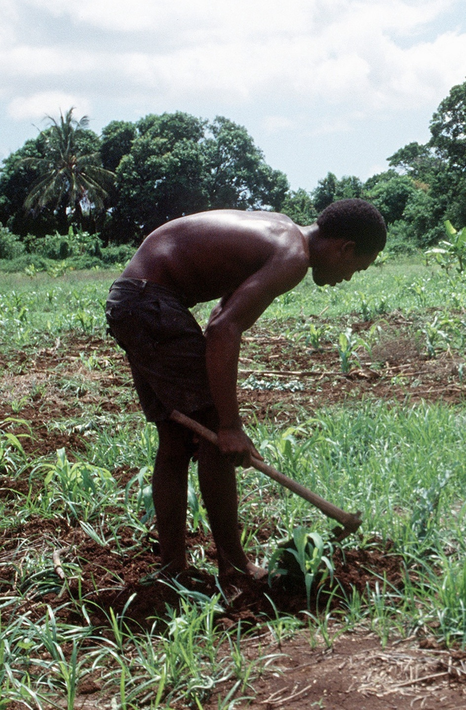 Bantu farmer working the fields near Kismayo.